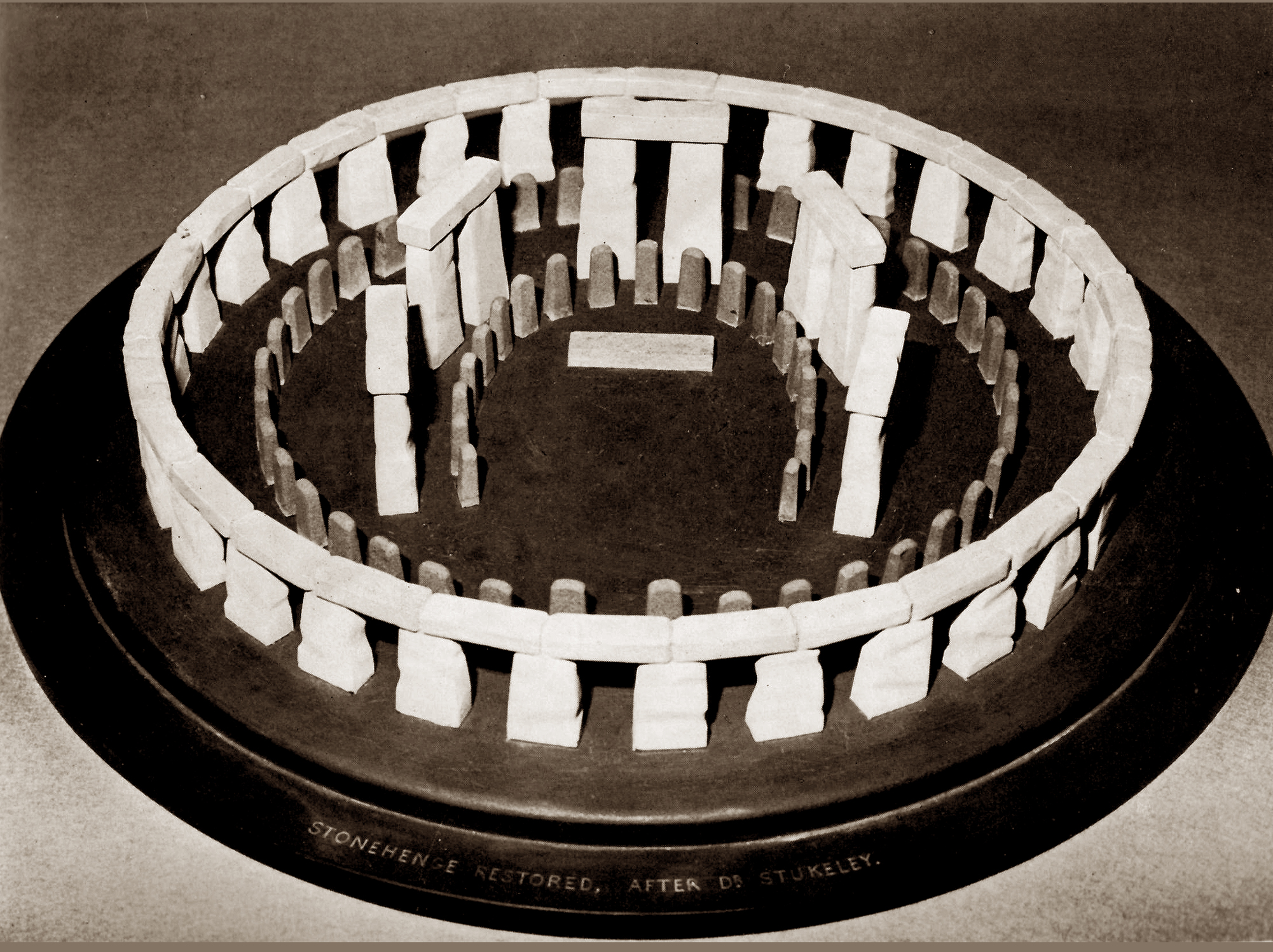 Neolithic Bronze Culture, Megalithic type. Stonehenge. Restoration in Salisbury Museum, England